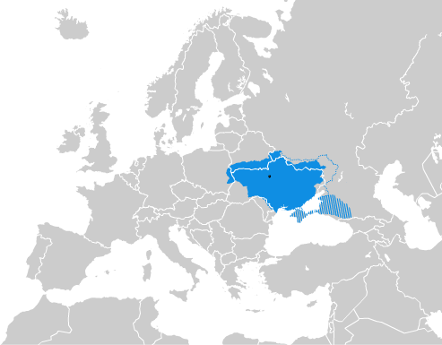 Map of the Ukrainian State (1918.V-XI)